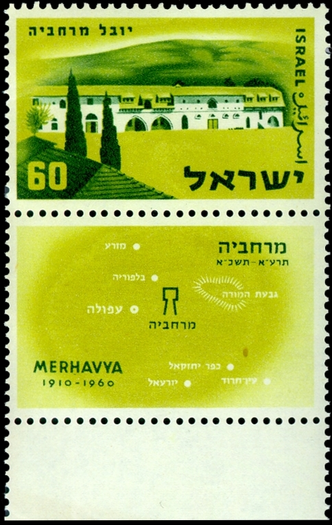 Israeli postage stamp issued toward 50th anniversary of kibbutz Merhavia - 60 mil